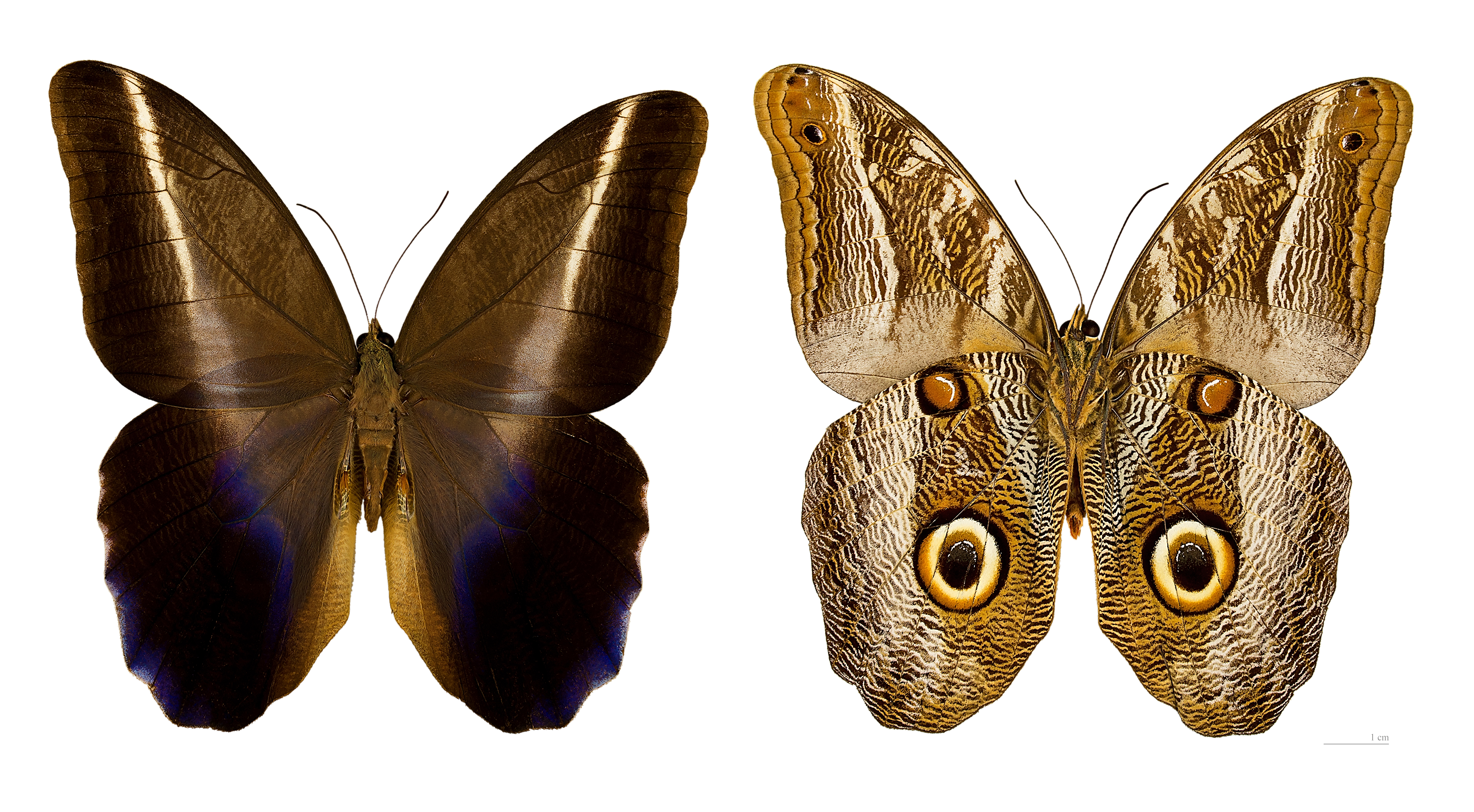 Idomeneus Giant Owl - Two views of same specimen